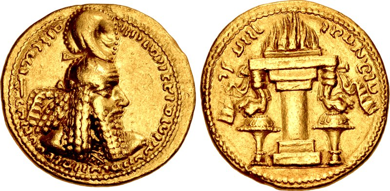 SASANIAN KINGS. Ardaxšīr (Ardashir) I. AD 223/4-240. AV Double Dinar (28mm, 14.99 g, 3h). Mint C ("Ctesiphon"). Phase 3, circa AD 233/4-238/9. mzdysn bgy ’rthštr MRK’n MRK’ ’yr’n MNW ctry MN yzd’ in Pahlavi, bust right, wearing diadem (type R) and close-fitting headdress with korymbos and no earflaps / NWR’ ZY in Pahlavi to left, ’rthštr in Pahlavi to right, fire altar (flames 1) with diadems (type R). SNS type IIIa(4a)/3a and pl. 8, A14 var. = Göbl pl. 1, 9 var. = Paruck pl. 11, 34 var. = De Morgan pl. 45, 9 var. = Alram 670 var. = BM Inv. 1887, 1201.27 var. (pellet behind korymbos); otherwise, unpublished. Good VF, minor deposits in obverse devices, hint of die rust. Extremely rare, apparently the second known.